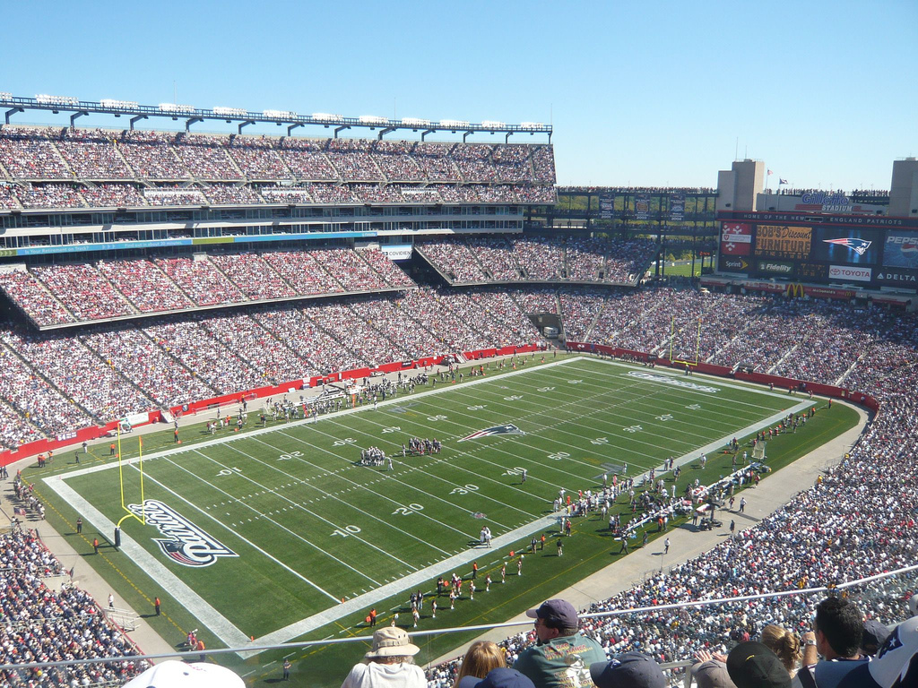 The Gillette Stadium